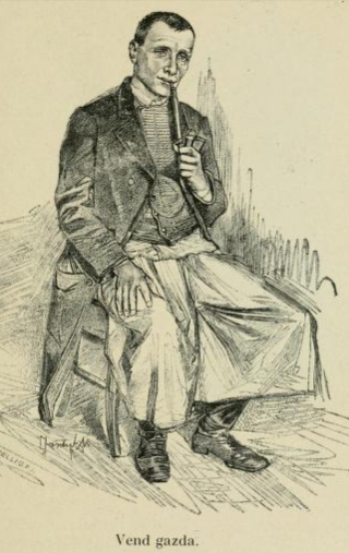 Slovene farmer